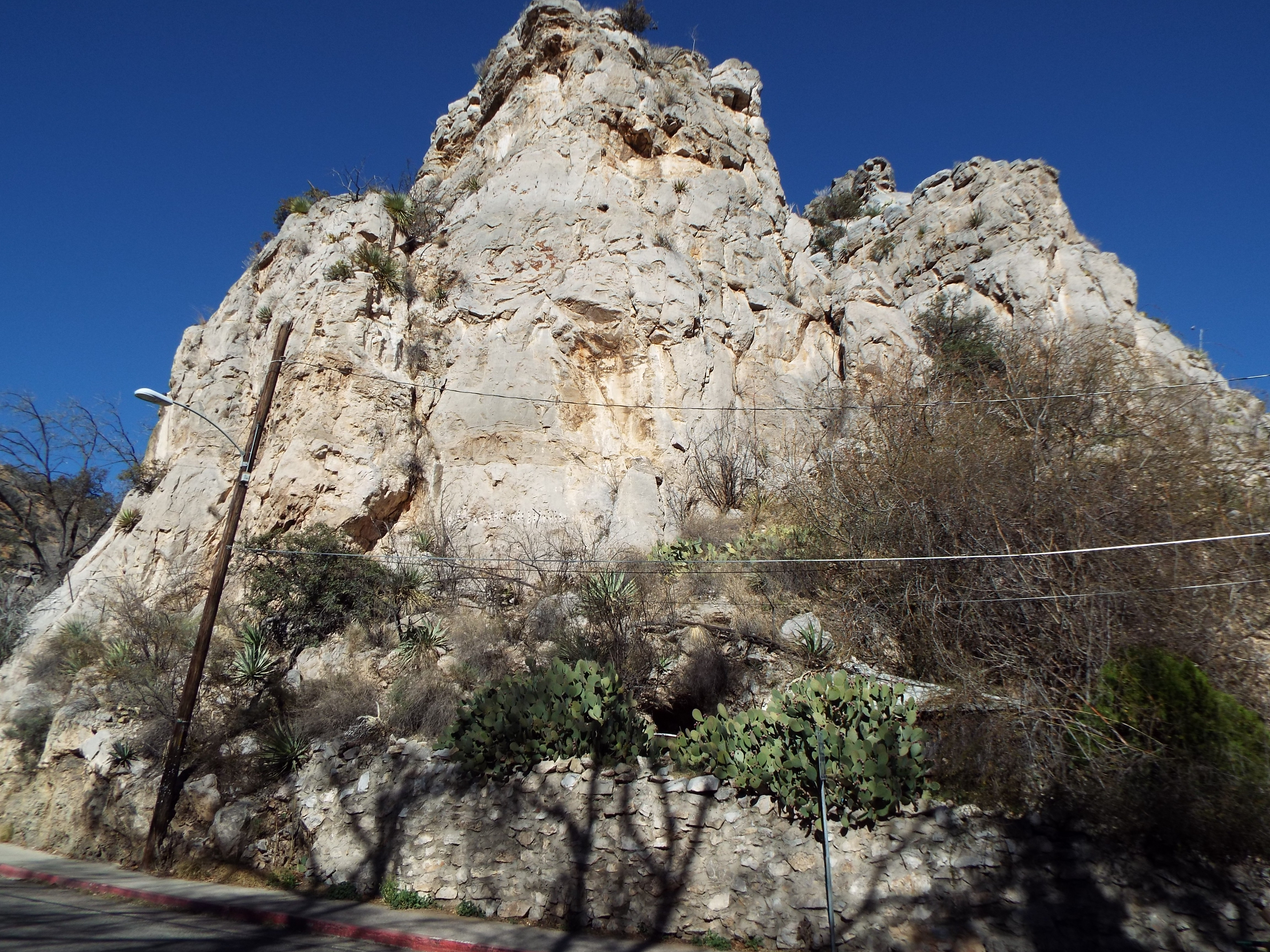 Castle Rock in Tombstone Canyon is Bisbee’s original landmark. Jack Dunn was filling the canteens of soldiers’ on a summer day in 1877, on the twin granite monoliths, when he discovered copper ore and recorded the first mining claim in what in the near future was to be known as the town of Bisbee.